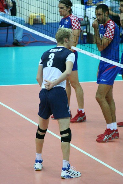 Finland volleyball national team setter Mikko Esko season 2007